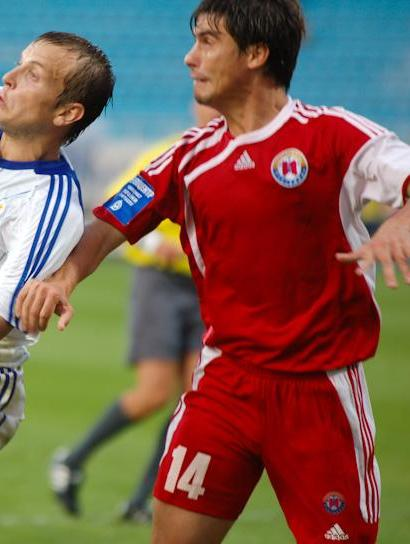 Artem Savin